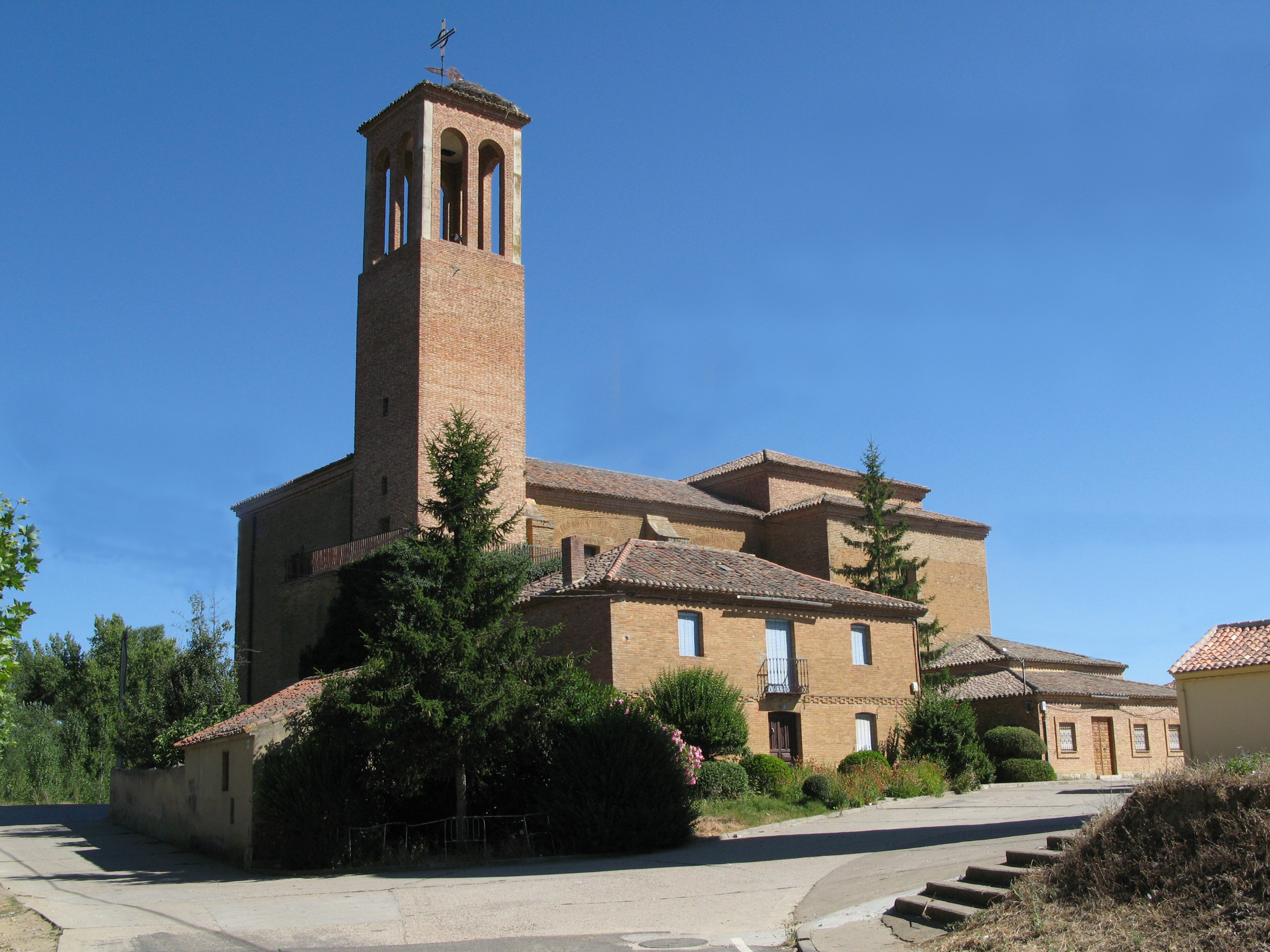 Church of St, Esteban in Villoldo (Palencia) Spain. XVI century